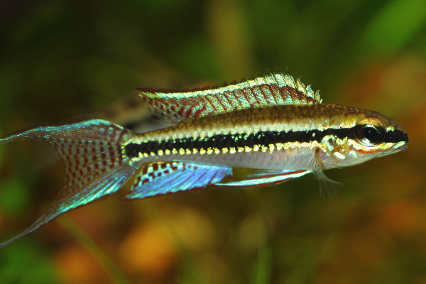 Dicrossus filamentosus, male specimen.